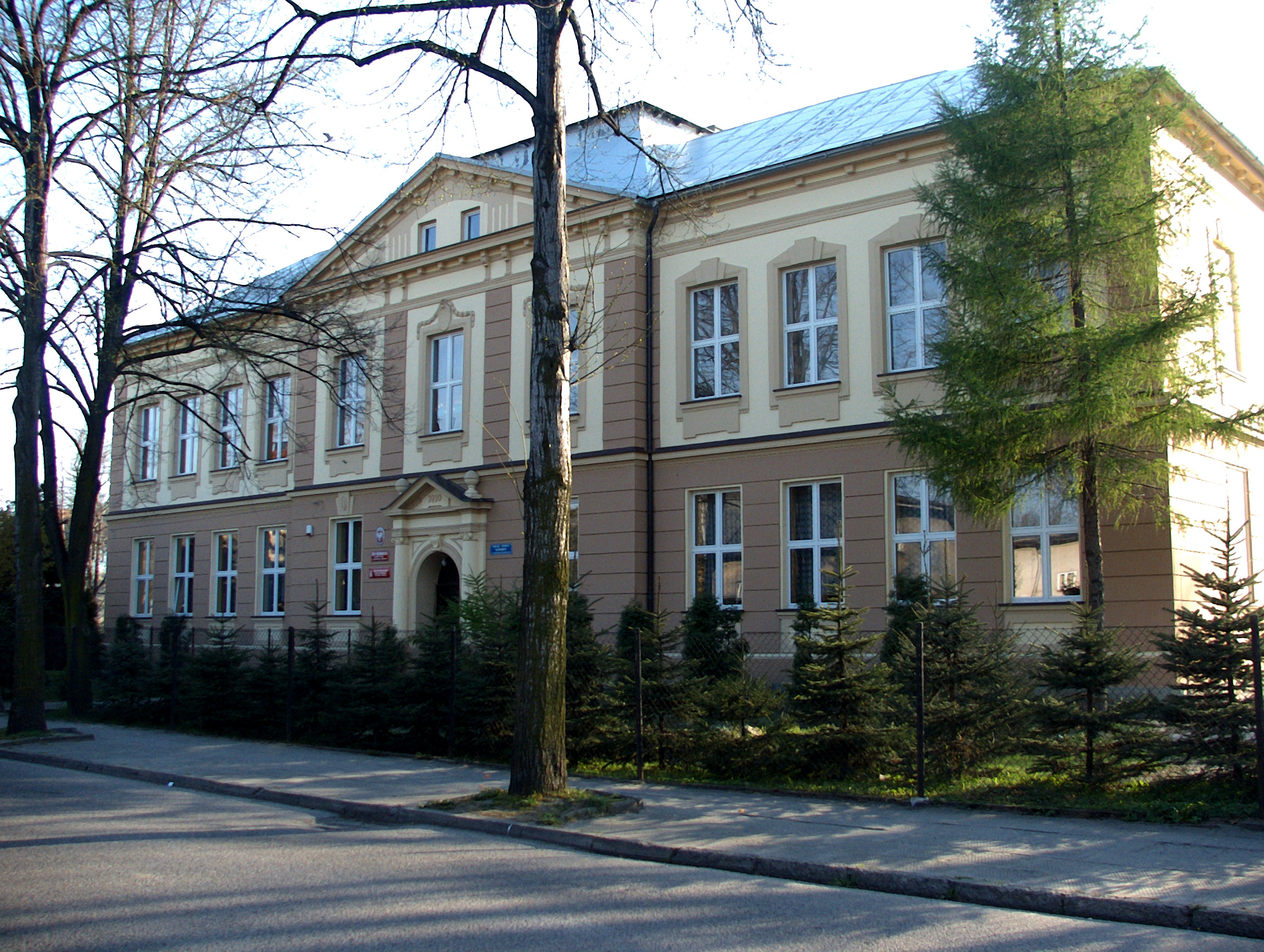 The fourth elementary school in Czechowice-Dziedzice.